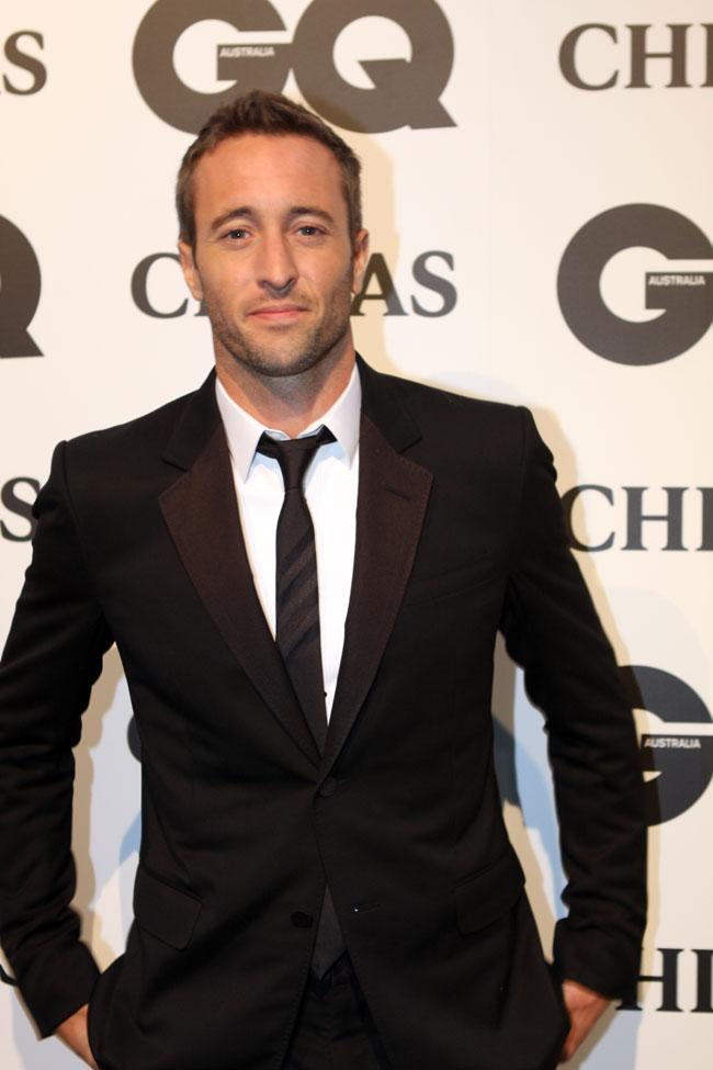 Alex O'Loughlin